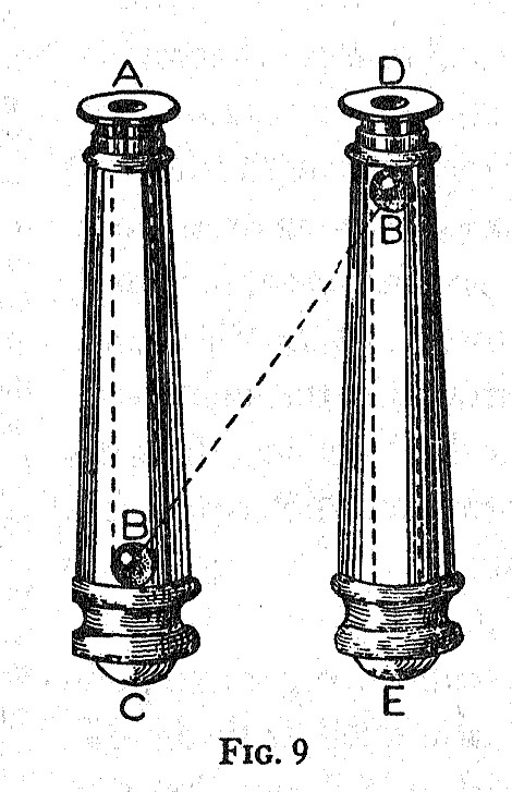 The actual path of a cannon ball B when fired vertically from a cannon on the earth surface is from C to D